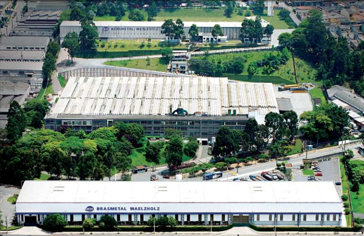 empresa Brasmetal